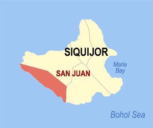 Map of Siquijor showing the location of San Juan